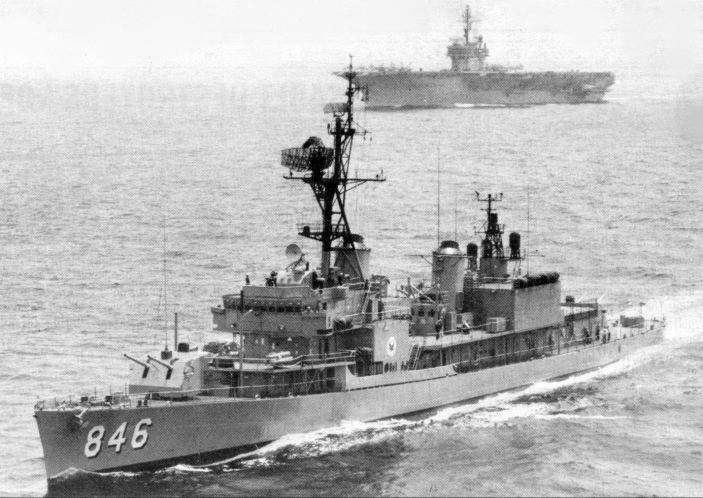 The U.S. Navy destroyer USS Ozbourn (DD-846) screening the aircraft carrier USS Kitty Hawk (CVA-63) in 1963.